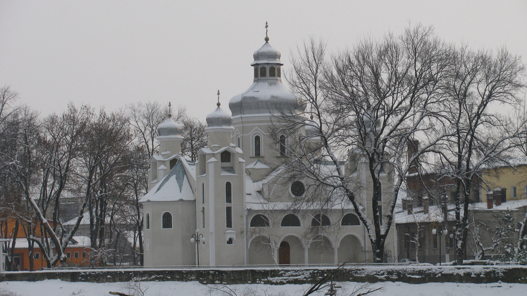 Ukrainian Orthodox church in Lugoj, Romania